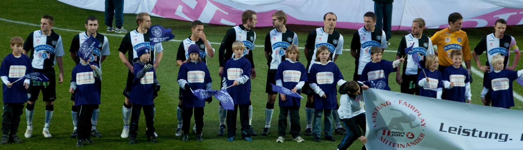 SK Sturm Graz before playing against FK Austria Wien on November, 8th 2009. From left to right: Jakob Jantscher, Ilia Kandelaki, Mario Sonnleitner, Sandro Foda, Klemen Lavric, Manuel Weber, Gordon Schildenfeld, Samir Muratovic, Martin Ehrenreich, Christian Gratzei und Andreas Hölzl.